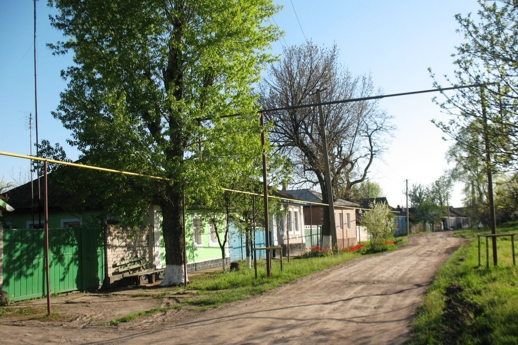 Uspenka, Luhansk Oblast